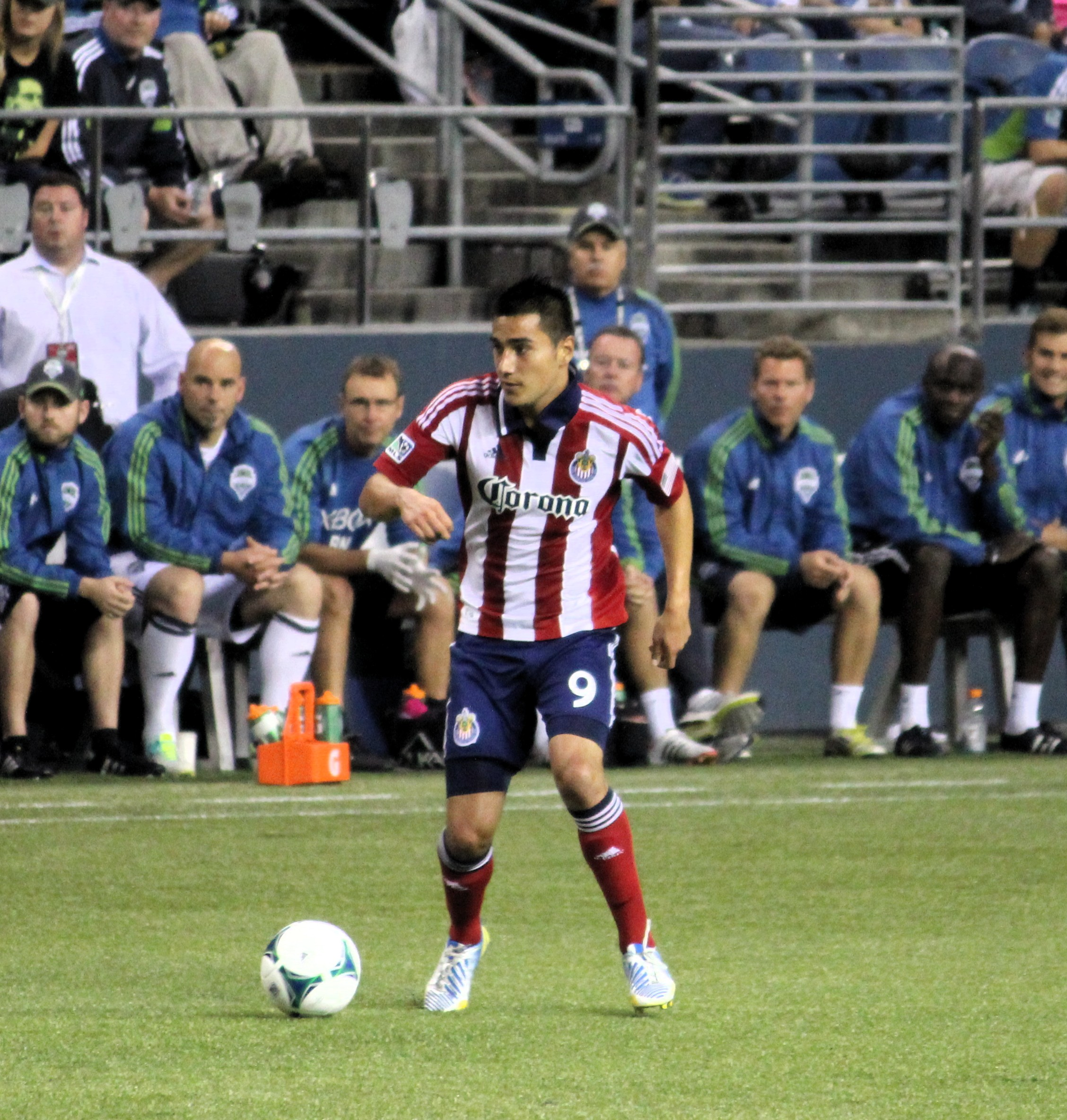 Julio Morales of Chivas USA in a game against the Seattle Sounders at Centurylink Field on September 4, 2013